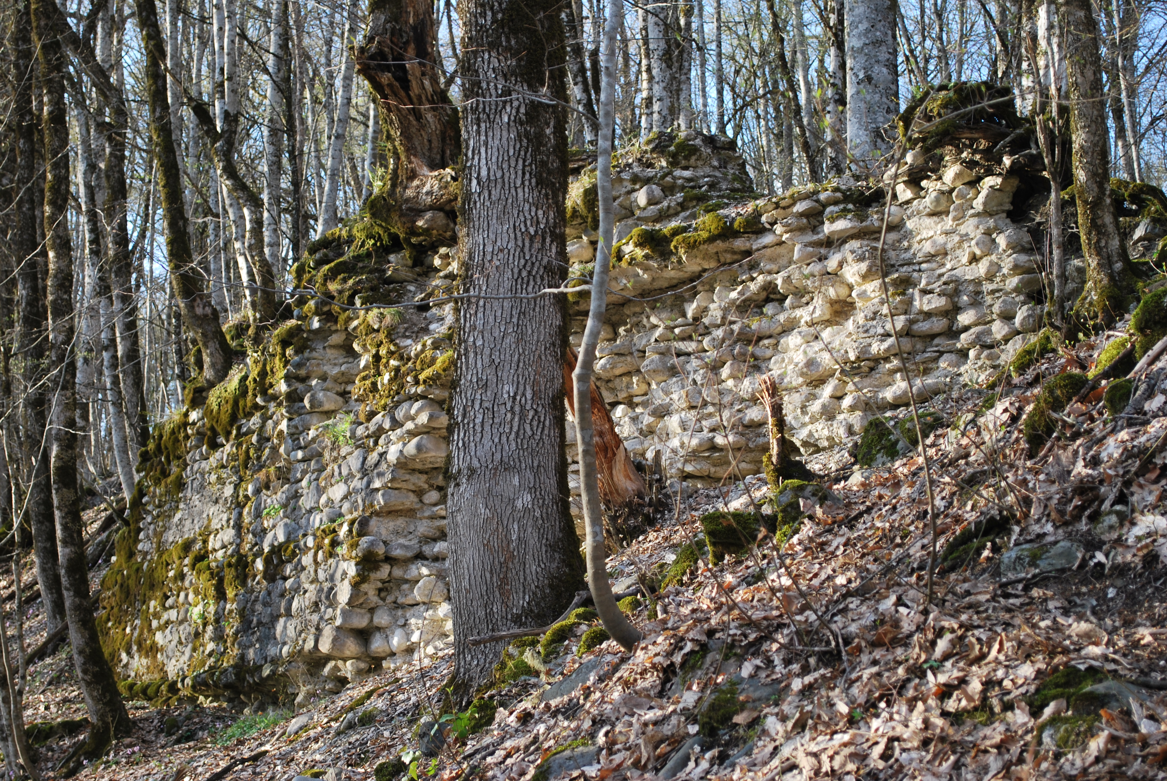 Achipse Fotres